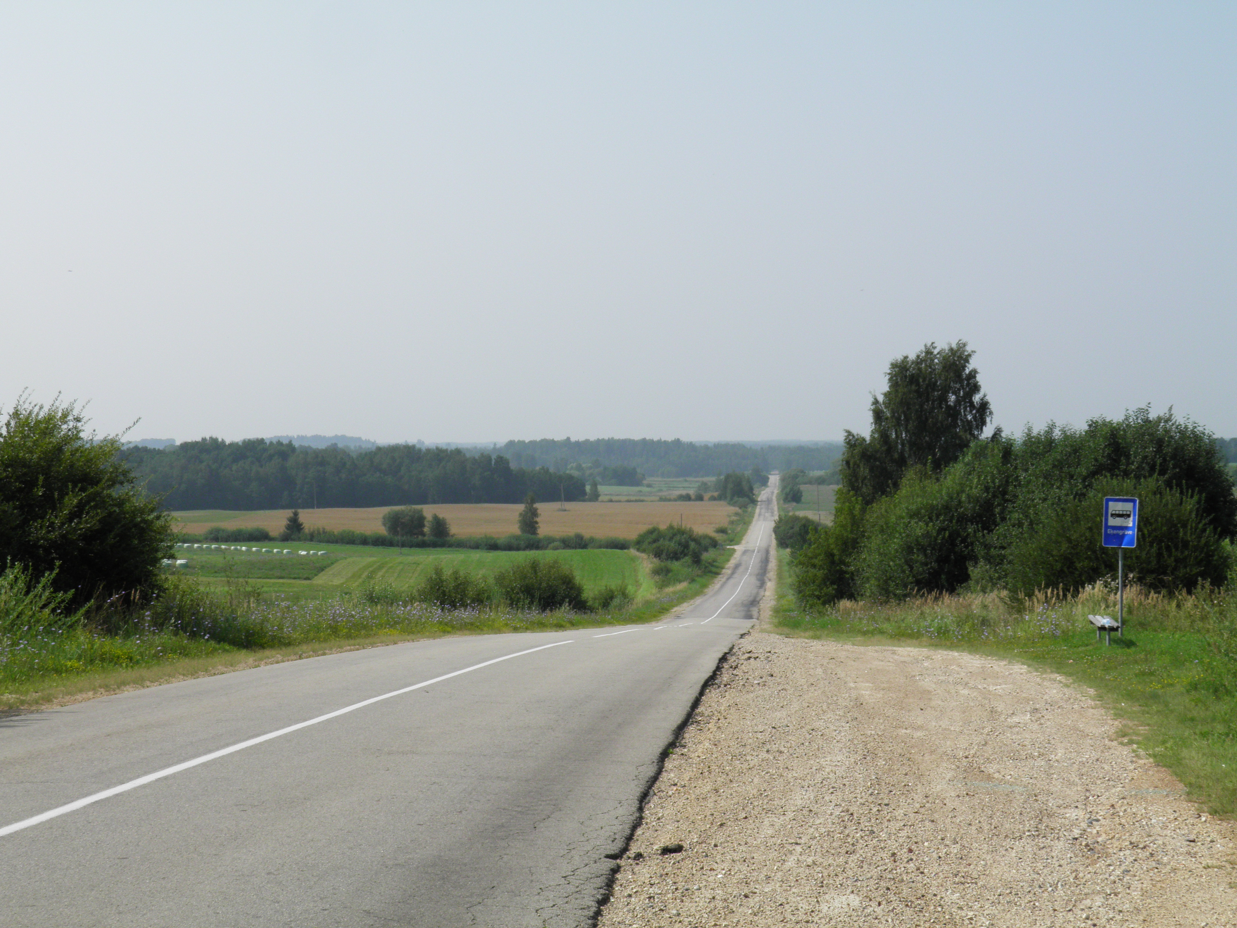 road